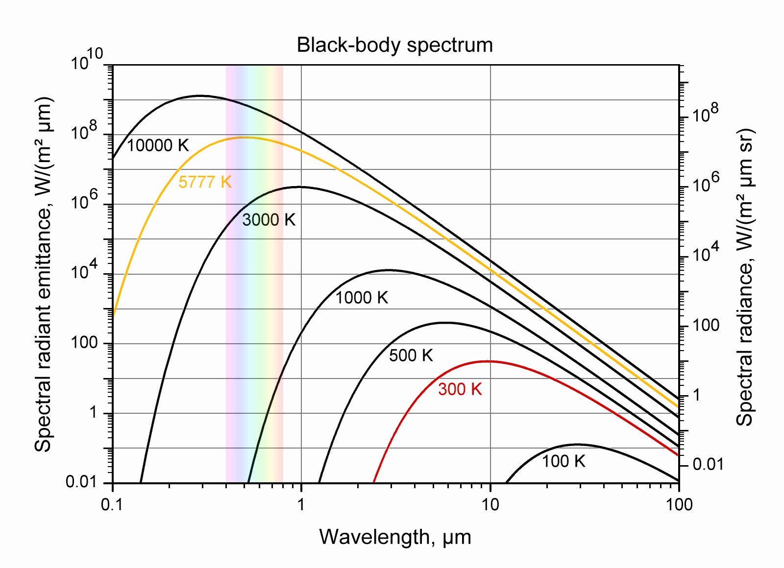 Black-body spectrum for temperatures between 300 K and 10,000 K in a log-log diagram.